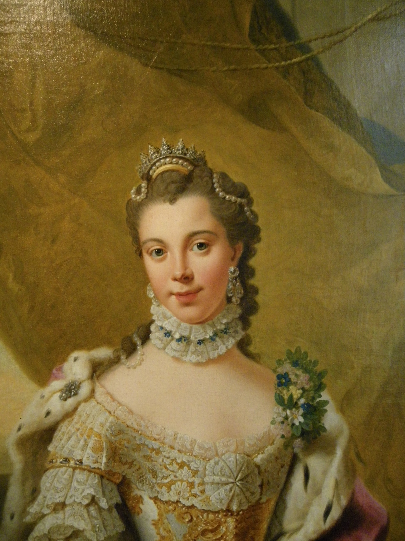 Sophie Charlotte von Mecklenburg-Strelitz (1744-1818), Painting after an original by Johann Georg Ziesenis (1713-1784) now in the Royal Collection (